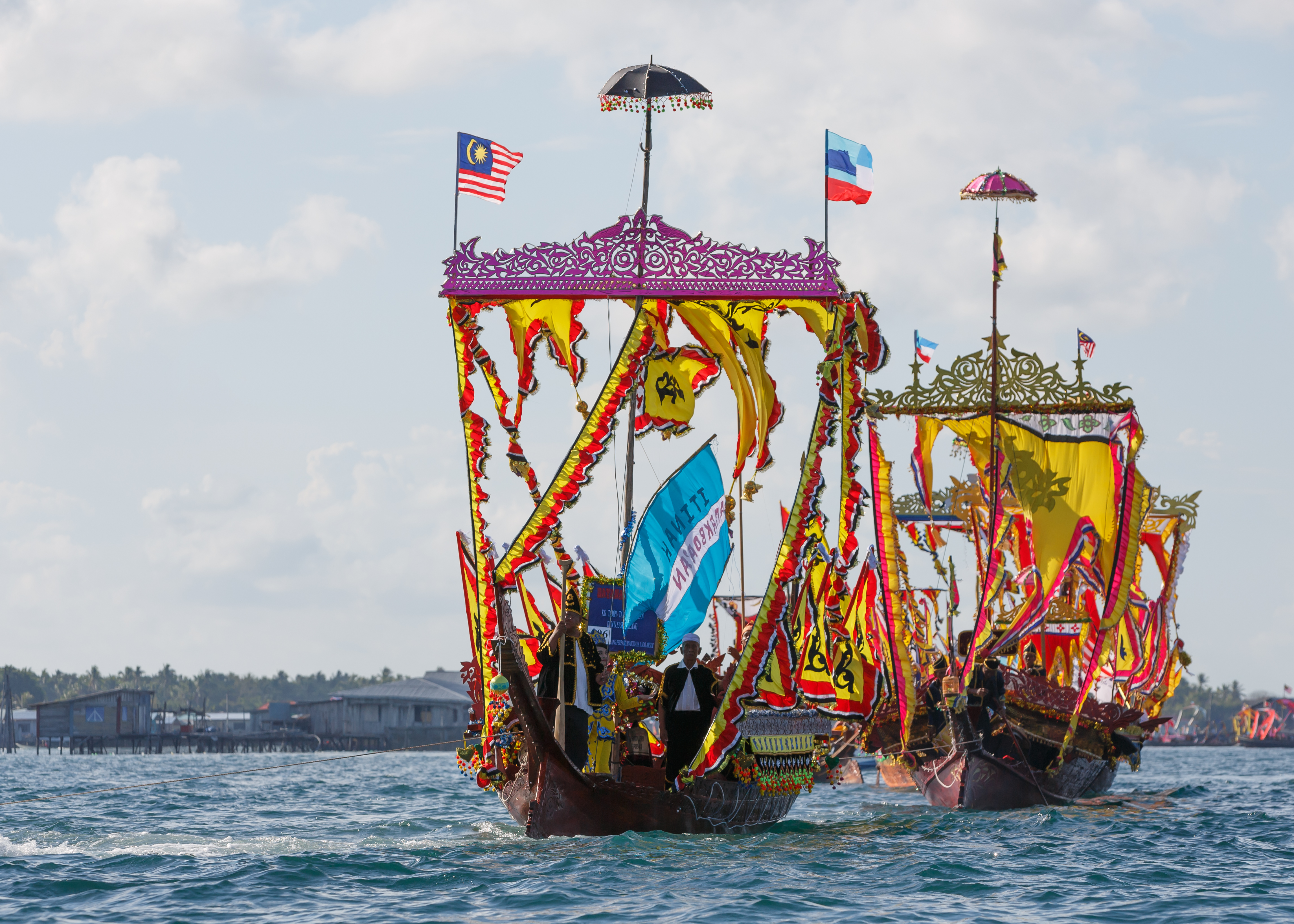 Semporna, Sabah: Two lepa - the tradtional boat of the Bajau people - during the Regatta Lepa event 2015)